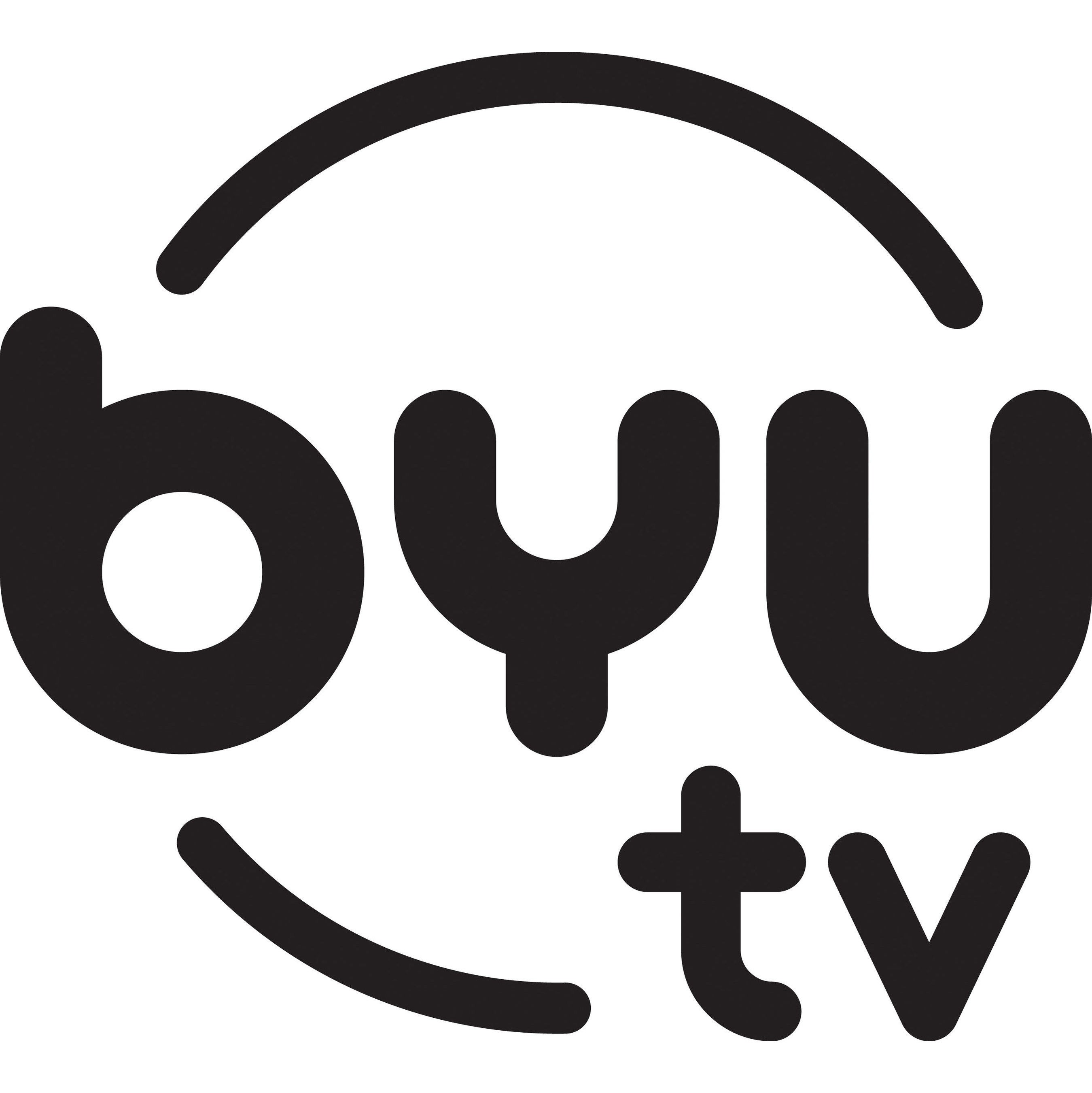 New better quality logo for BYU tv.